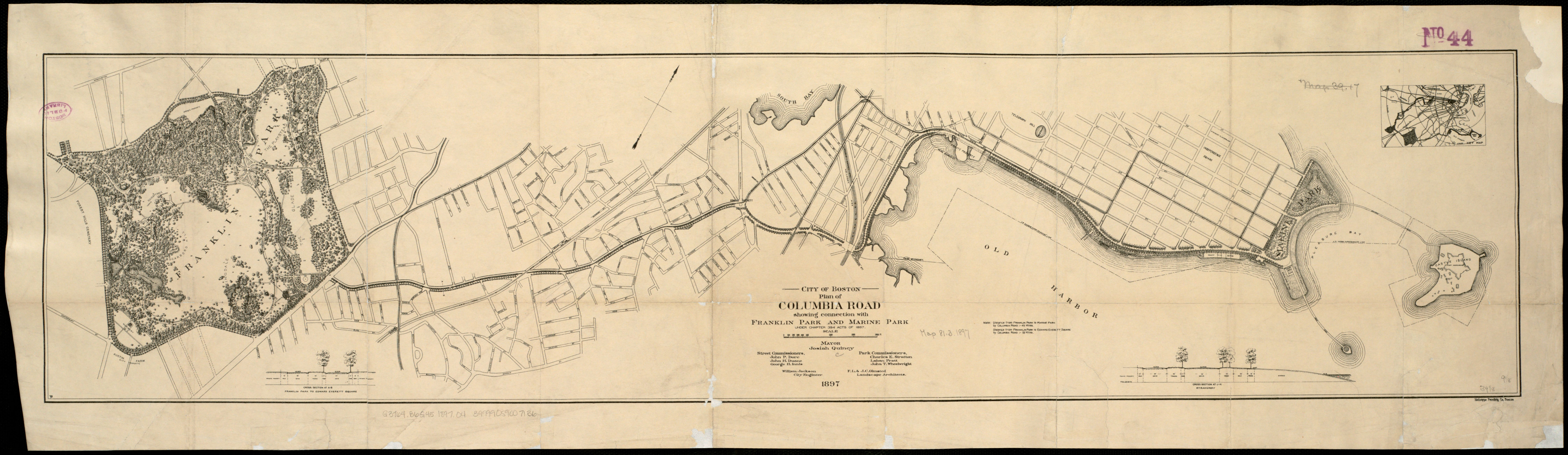 An 1897 plan for Columbia Road as part of the Emerald Necklace, connecting Franklin Park and Marine Park